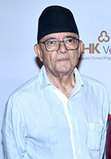 Manisha Koirala at Dadasaheb Phalke Film Foundation 2018 awards